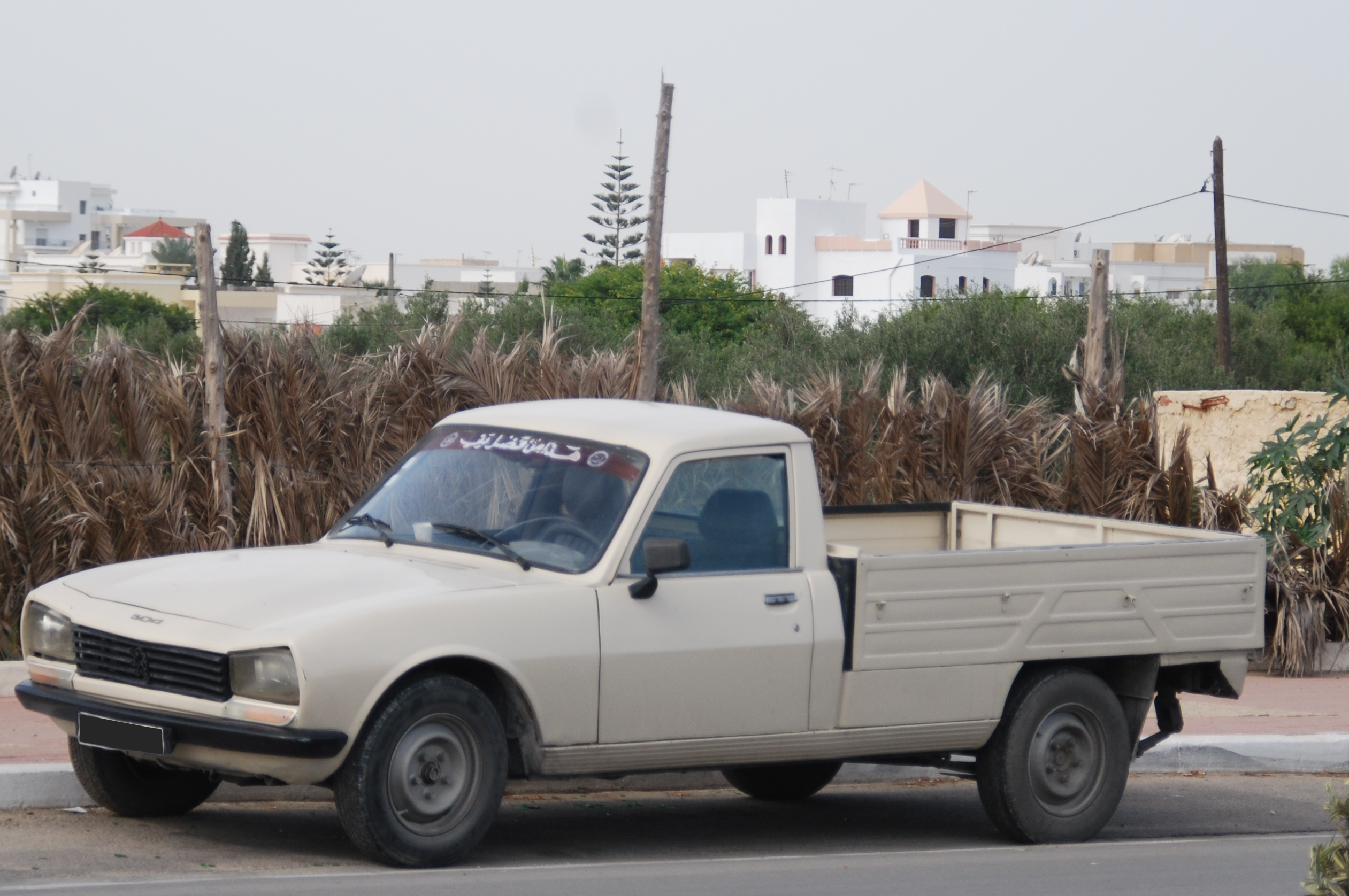 Peugeot 504 Pick-Up